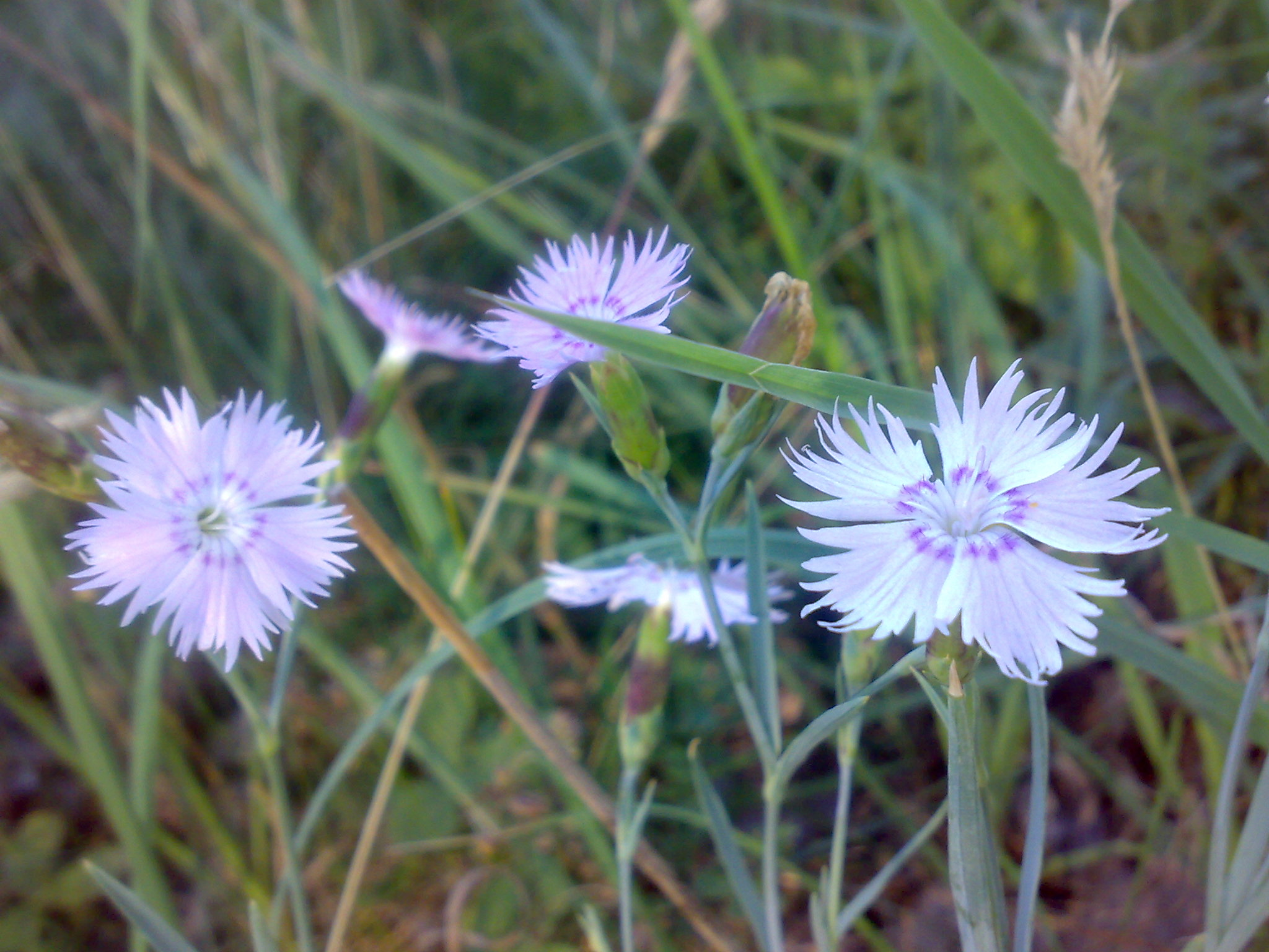 Dianthus arenarius, Asker, Norway (Sandnellik)